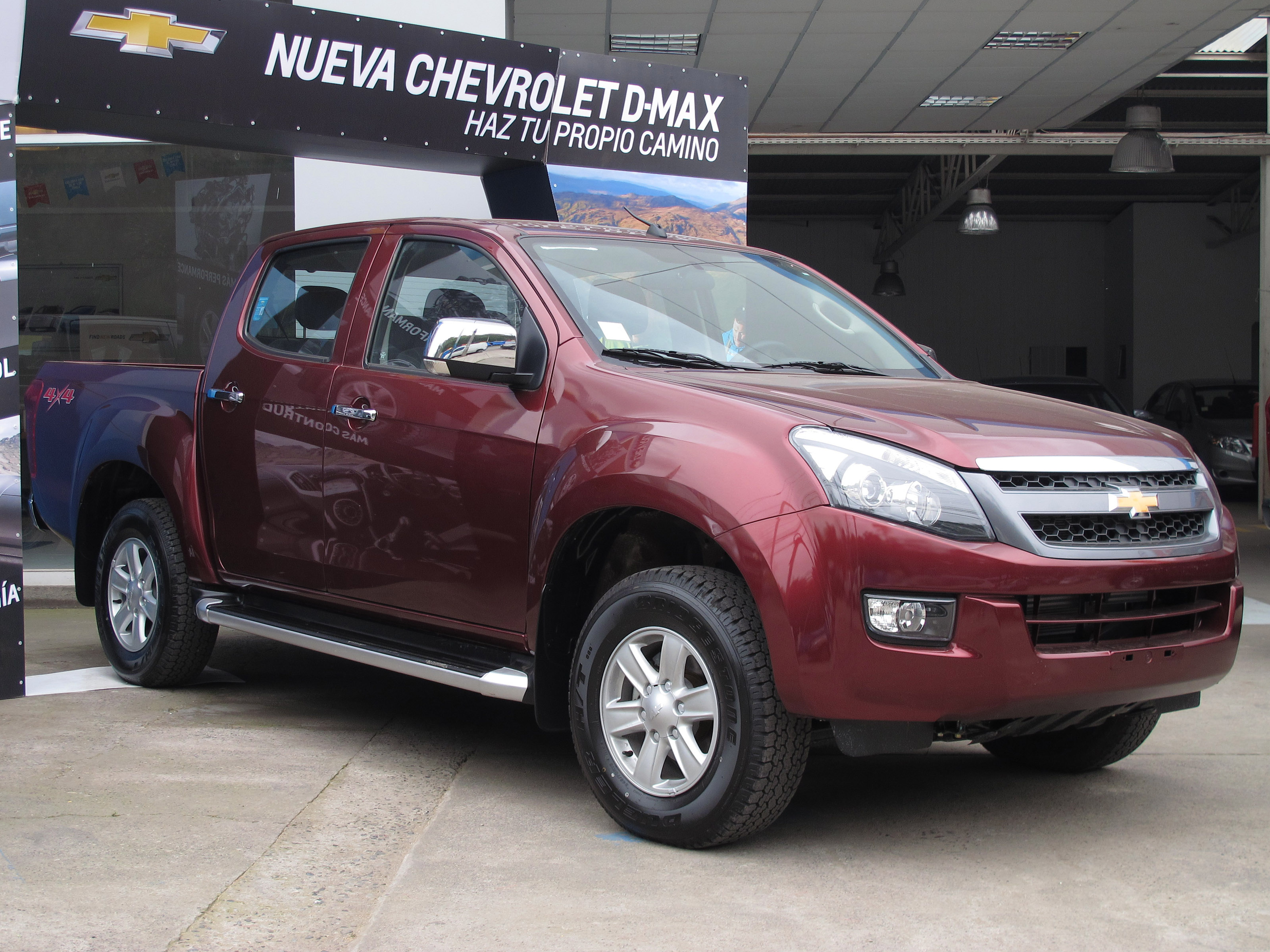 Chevrolet Dmax 2.5 TD High 4x4 2015